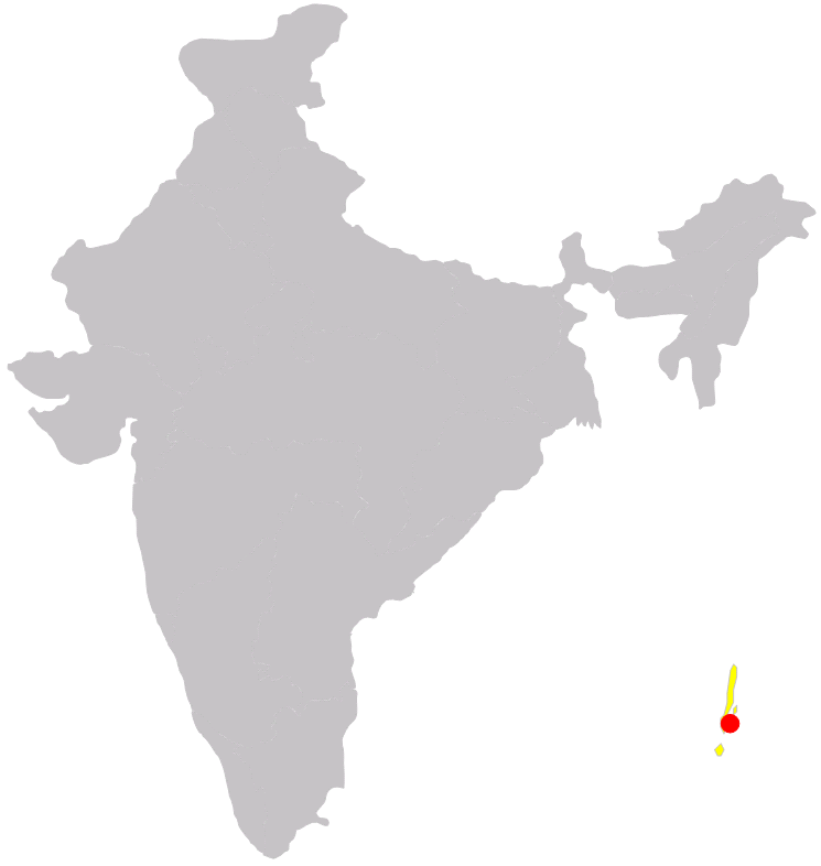 position of Port Blair in India